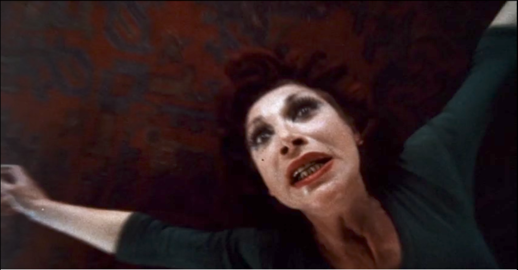 Miriam Karlin in the trailer for A Clockwork Orange